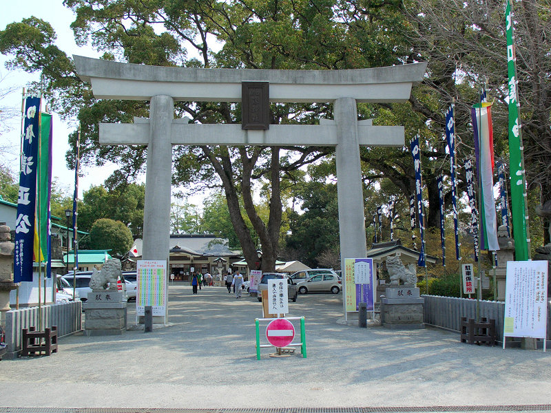 Katō Shrine, Kumamoto City, Kumamoto, Japan